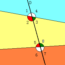 interior angles of the same side